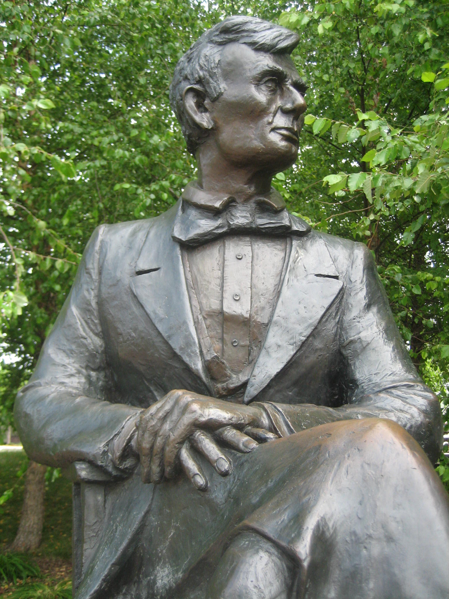 "Lincoln and Douglas" (1992), by Lily Tolpo, Debate Square, site of second debate between Abraham Lincoln and Stephen A. Douglas in 1858. Freeport, Illinois, USA.